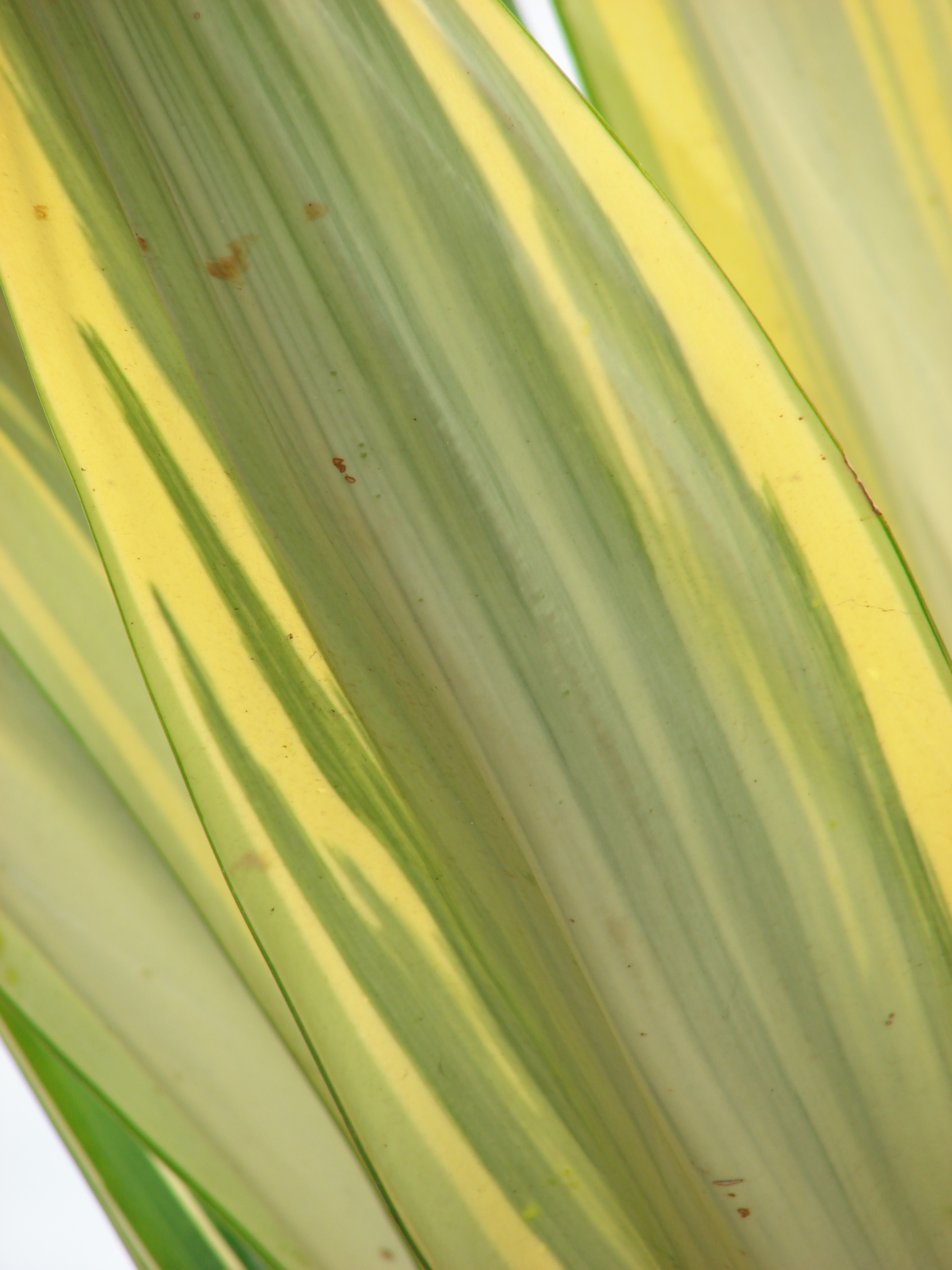 Furcraea foetida (variegated leaves). Location: Maui, Omaopio